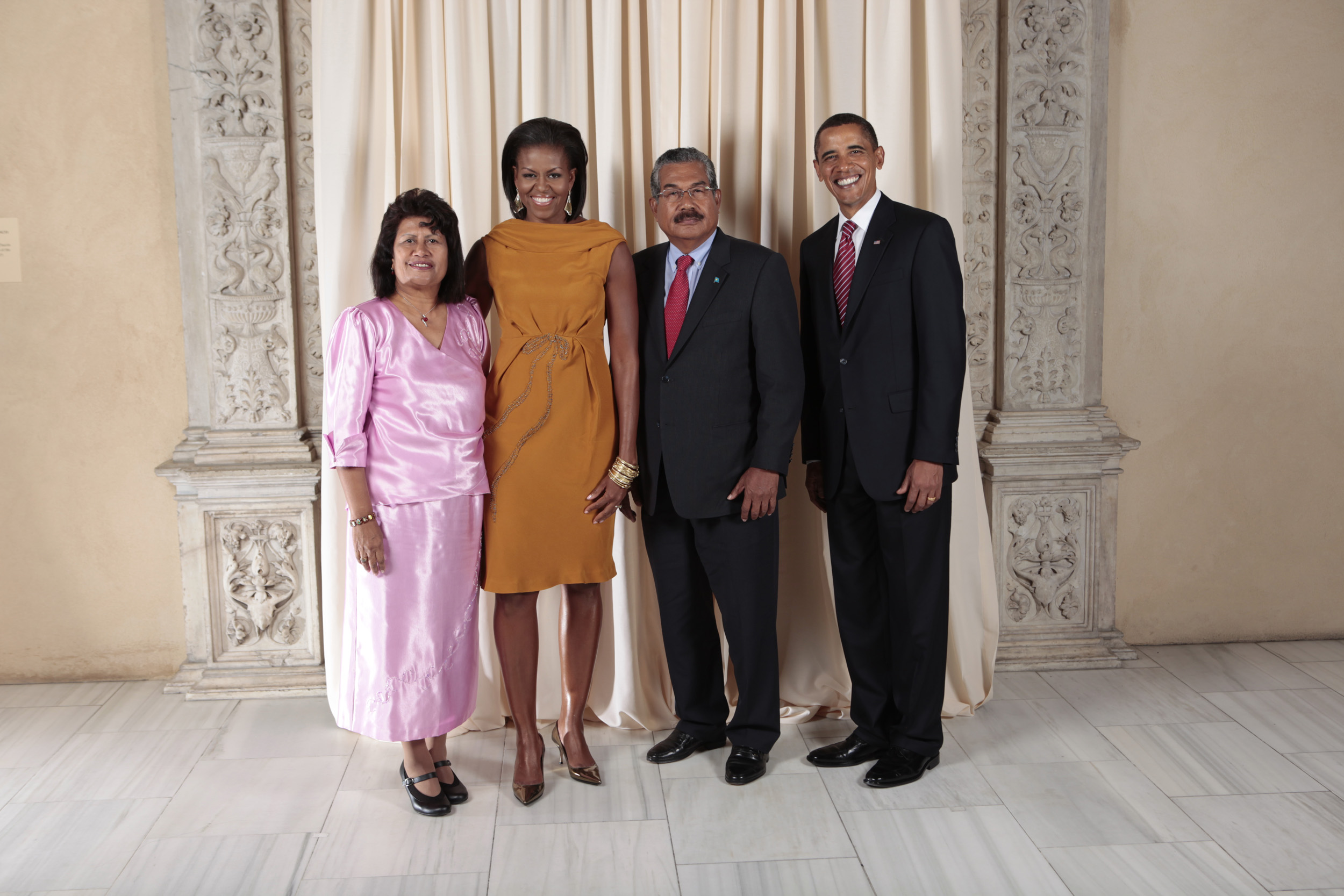 President Barack Obama and First Lady Michelle Obama pose for a photo during a reception at the Metropolitan Museum in New York with Johnson Toribiong, President of Palau, and his wife First Lady Valeria Toribiong.